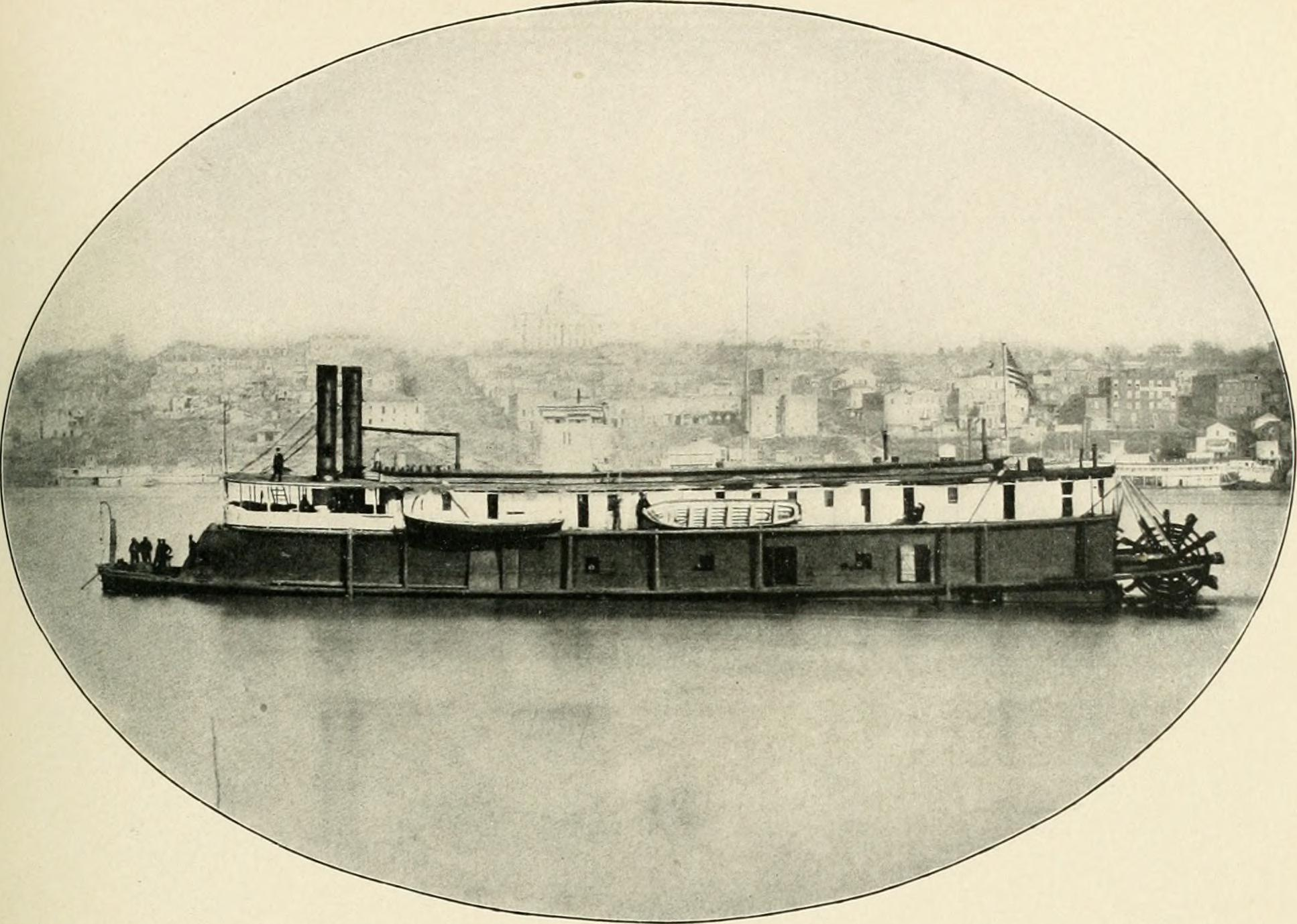 Title: The photographic history of the Civil War : thousands of scenes photographed 1861-65, with text by many special authorities Year: 1911 (1910s) Authors: Miller, Francis Trevelyan, 1877-1959 Lanier, Robert S. (Robert Sampson), 1880- Subjects: United States -- History Civil War, 1861-1865 Pictorial works United States -- History Civil War, 1861-1865 Publisher: New York : Review of Reviews Co. Text Appearing Before Image: (208) Text Appearing After Image: A VIGILANT PATROLLER—THE SILVER LAKE In the ))icturt t.lie Silver Lake is lying off Vicksburg after its fall. While Admiral Porter was busyattacking Vicksburg with the Mississippi squadron, Lieutenant-Commander Le Roy Fitch, with a few smallgunboats, was acti\ely patrolling the Tennessee and Cumberland Rivers. It was soon seen that the holdupon Tennessee and Kentucky gained by the Federals by the fall of Forts Henry and Donelson would belost without adequate assistance from the iui\\, aiid Admiral Porter was authorized to purchase smalllight-draft river steamers and add them to Fitchs flotilla as rapidly as they could be converted into gun-boats. One of the first to be comjjleted was the Silver Lake. The little stern-wheel steamer first dis-tinguished herself on February 3, 1863, at Dover, Tennessee, where .she (with Fitchs flotilla) assisted inrouting 4,500 Confederates, who were attacking the Federals at that place. The little vessel continued torender yeomans service with the oth